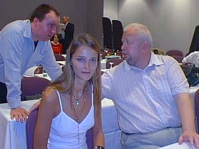 Carmen Kass, chess delegation from Estonia at the Chess Classic Mainz 2004.